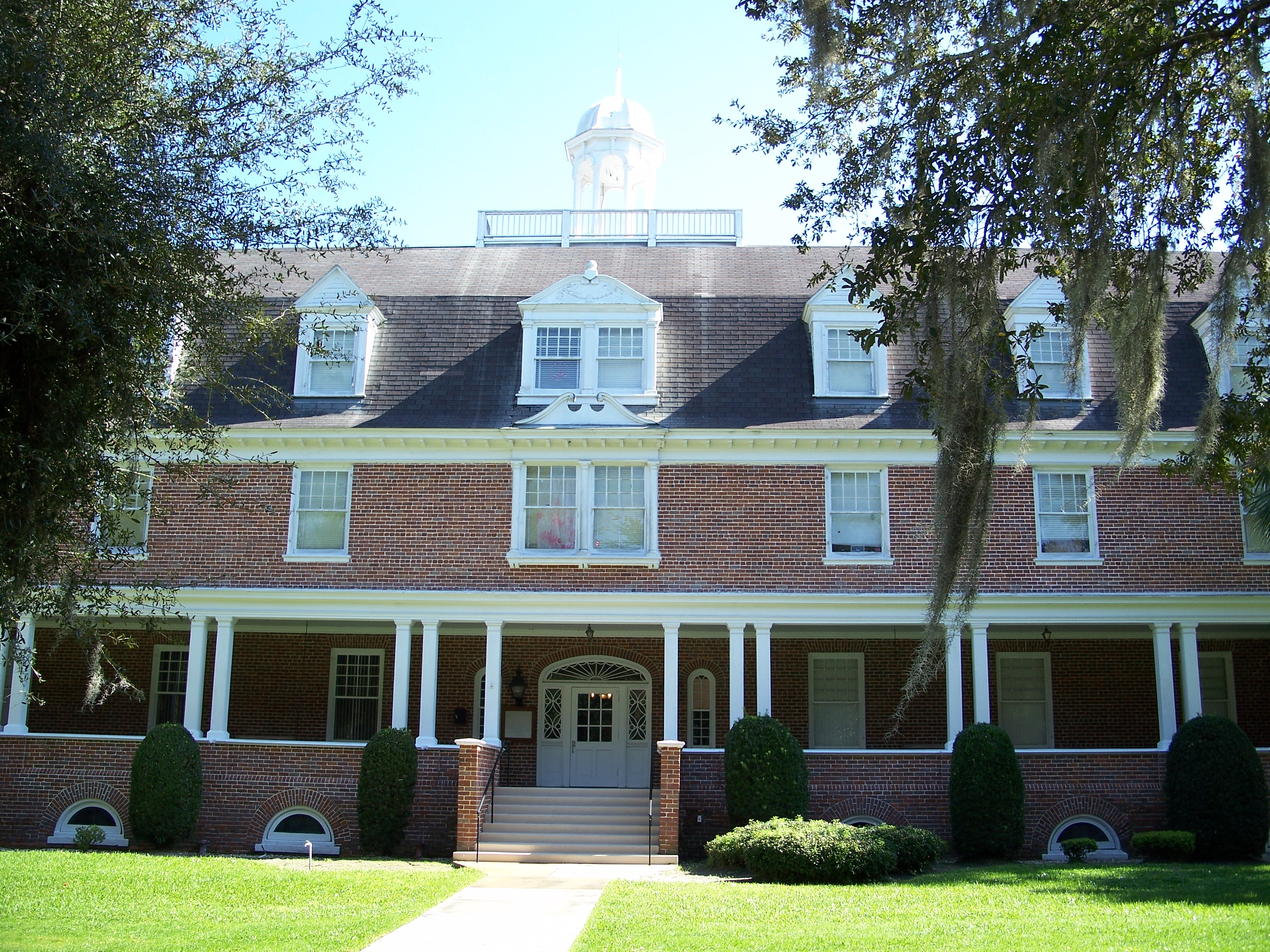 Chaudoin Hall on Stetson University campus, in DeLand, Florida